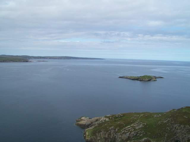 Colour image of Green Island and Enard Bay from Creag na Speirag.